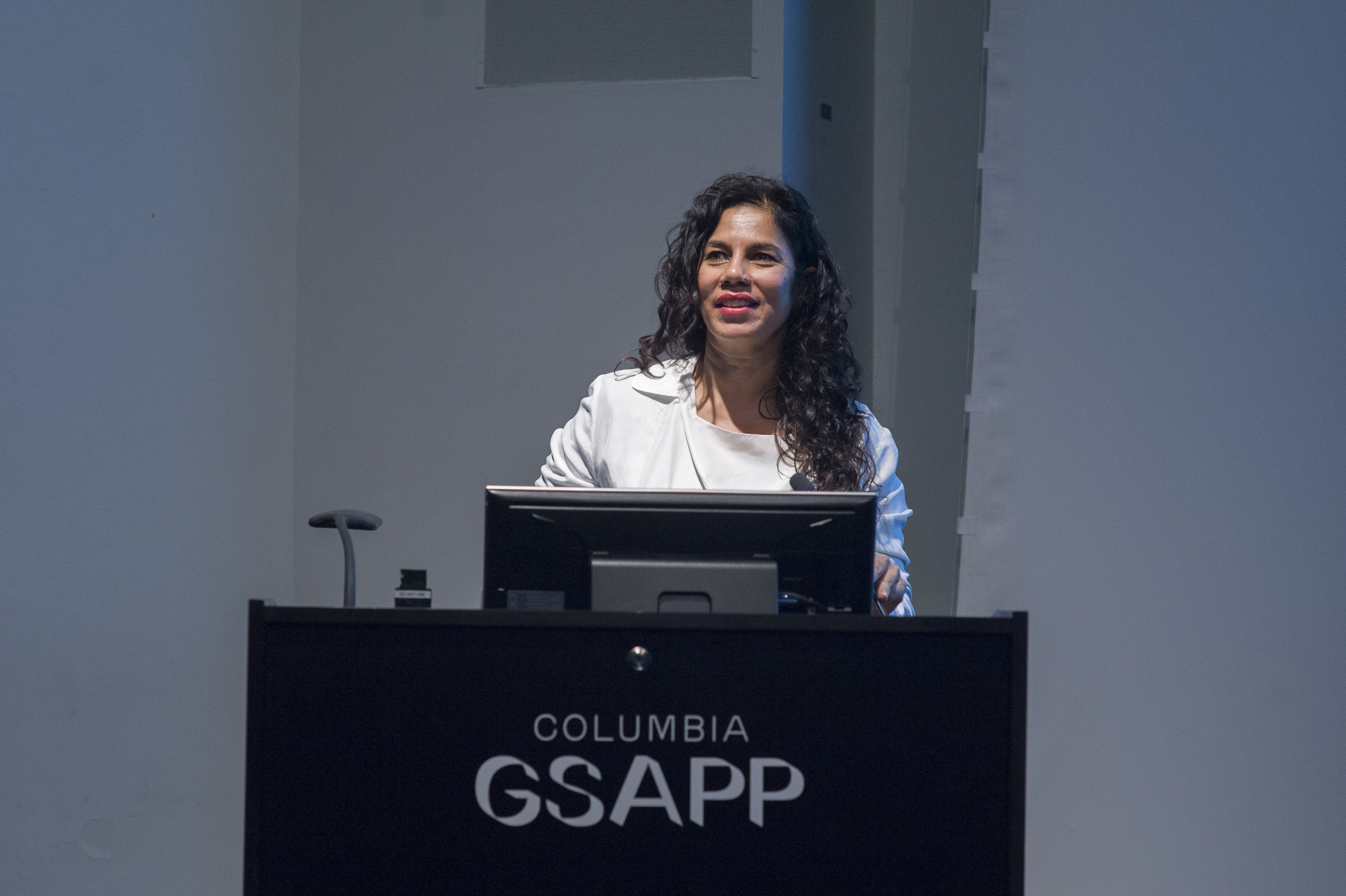 Anupama Kundoo at Columbia GSAPP